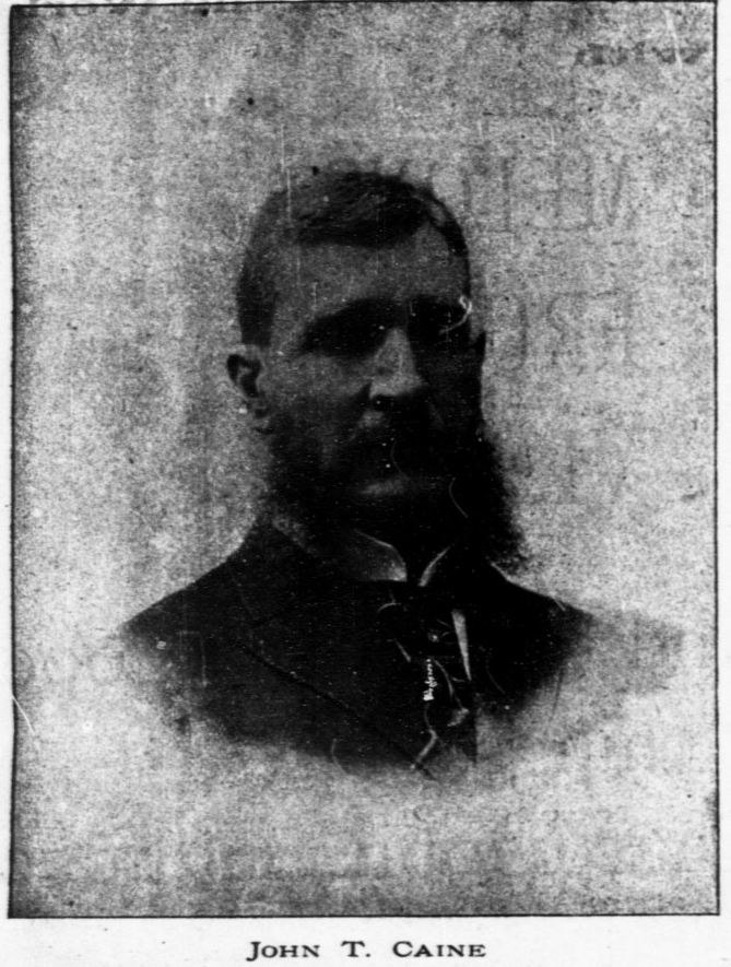 John T. Caine, from issue of The Broad Ax (September 14, 1895)